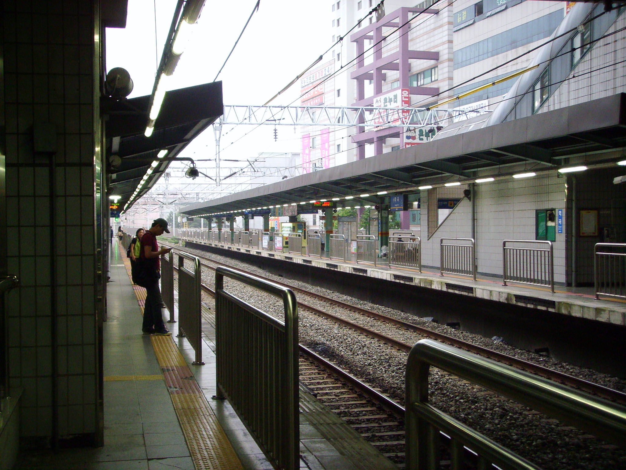 Gyeongin Line Yeokgok Station